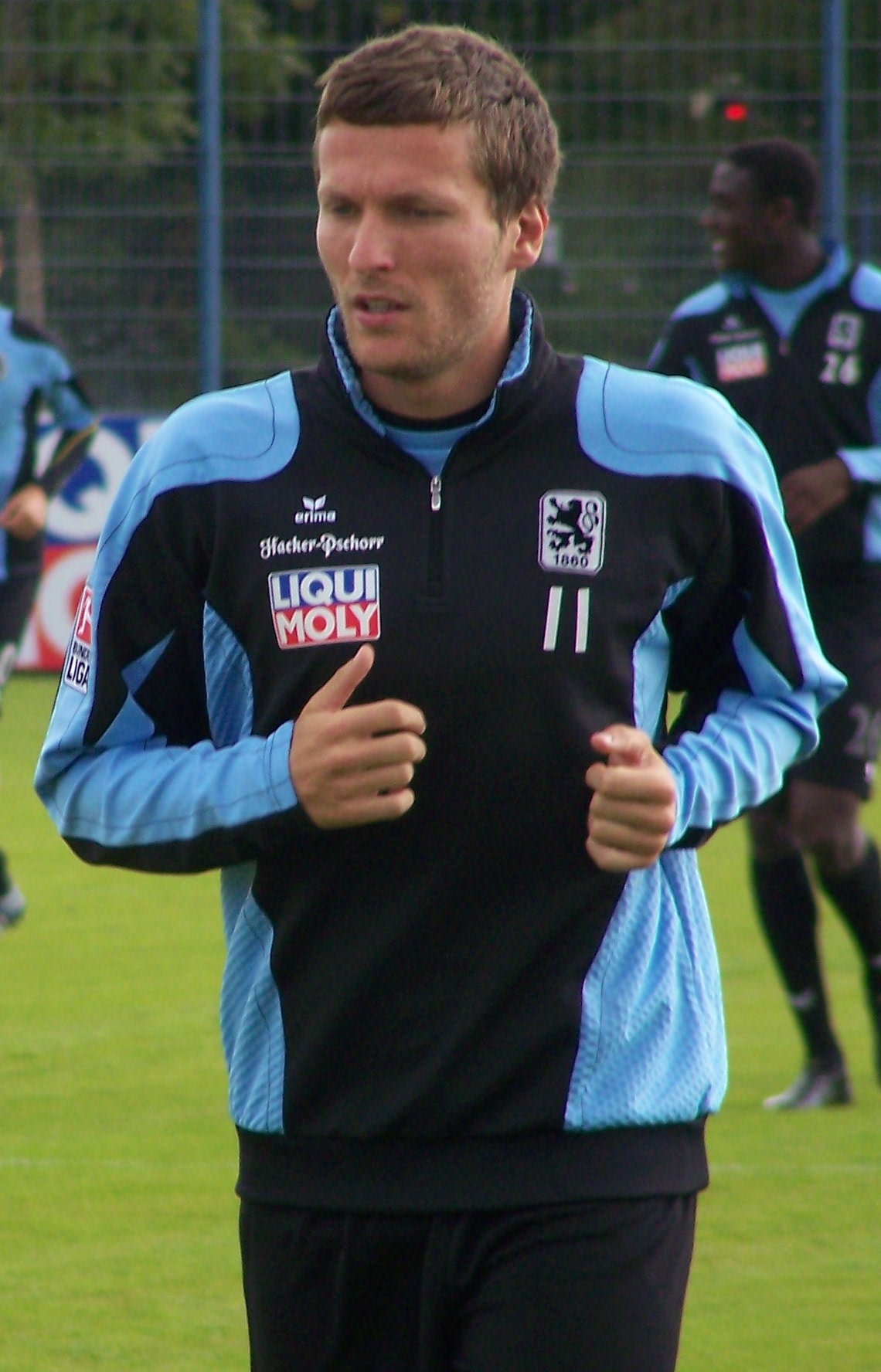 Benny Lauth, 1860 munich, training